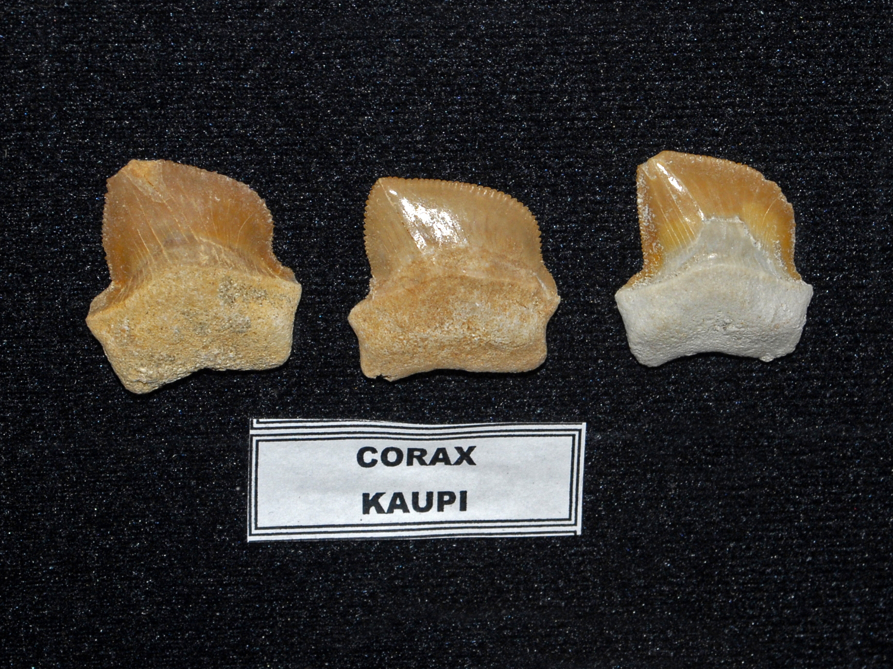 Fossil teeth of Corax kaupi from Khouribga (Morocco)